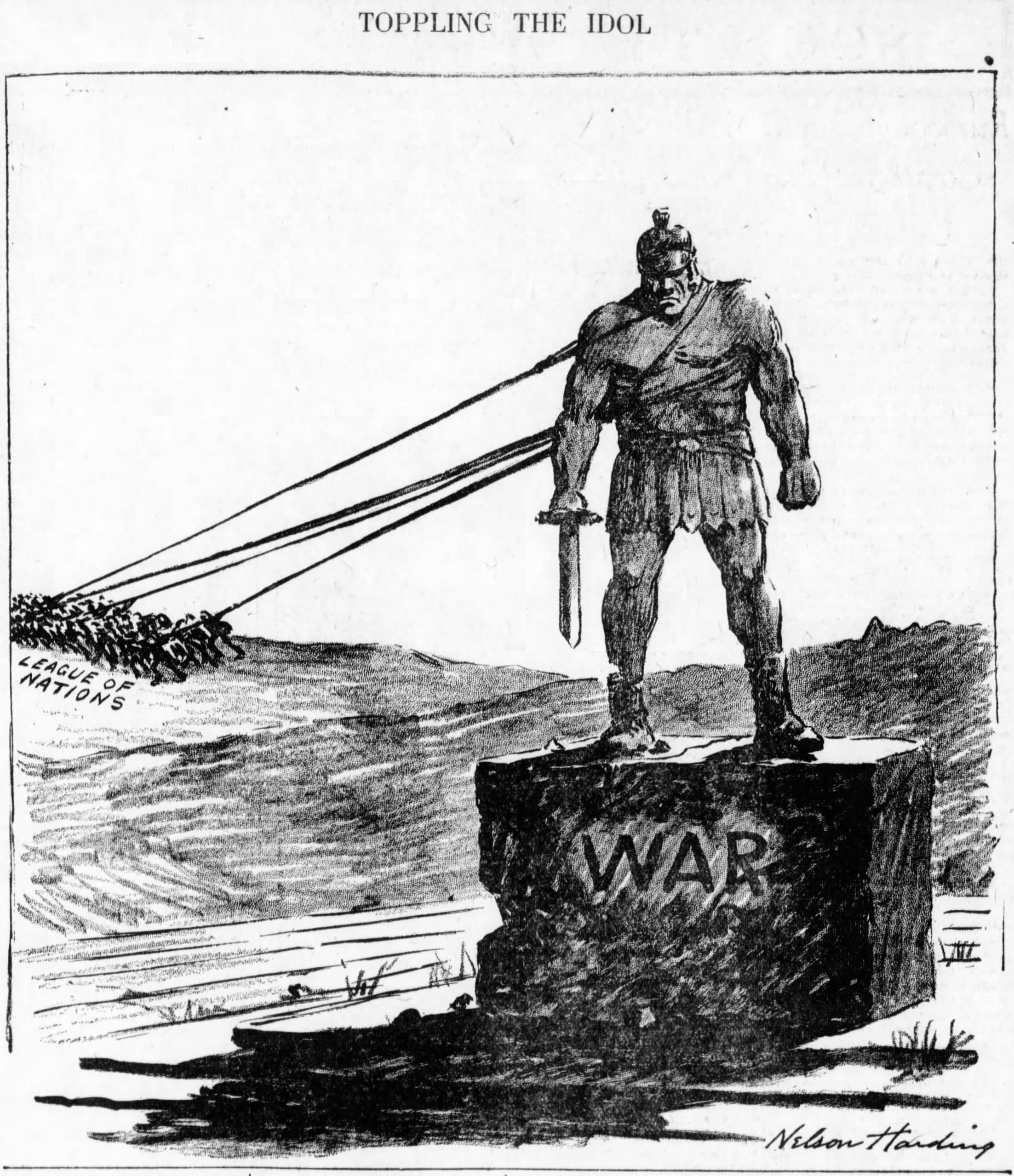 "Toppling the Idol", an editorial cartoon lampooning the efforts of the League of Nations to prevent war. Winner of the 1927 Pulitzer Prize for Editorial Cartooning.